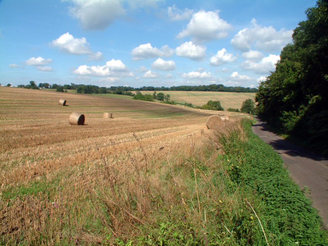 Beddlestead Lane, Chelsham, CR6. Looking north.